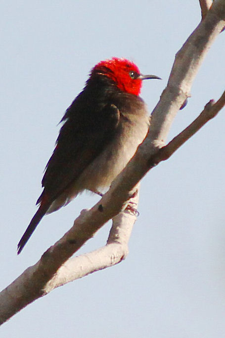 Red-headed Honeyeater perched on a branch, rear view.